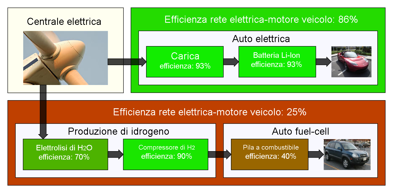 Italian version of the original image: Image:Battery EV vs. Hydrogen EV.png